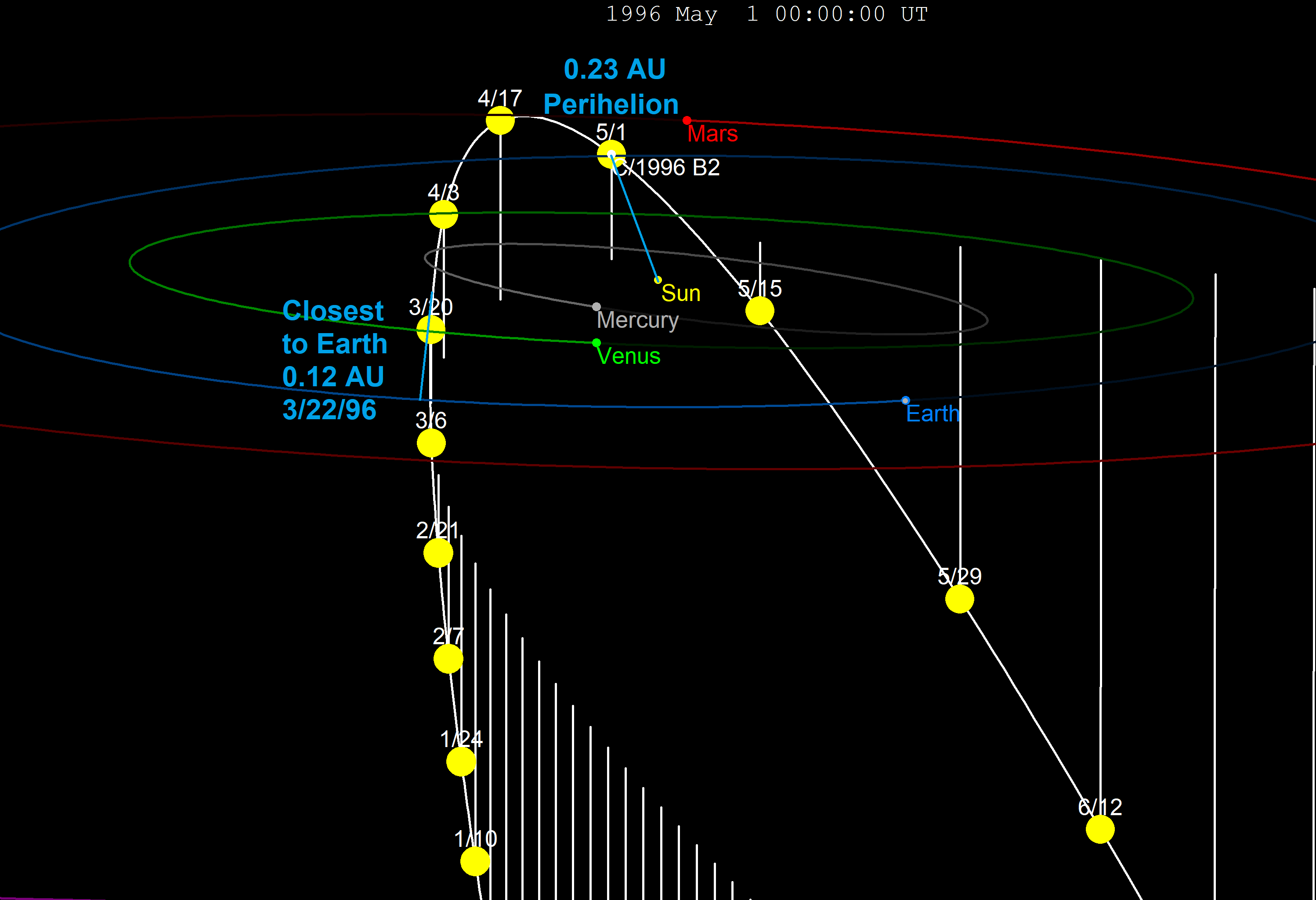 Comet Hyakutake trajectory through the inner solar system, with a high inclination, its shown with vertical lines projecting the comet's positions onto the ecliptic.